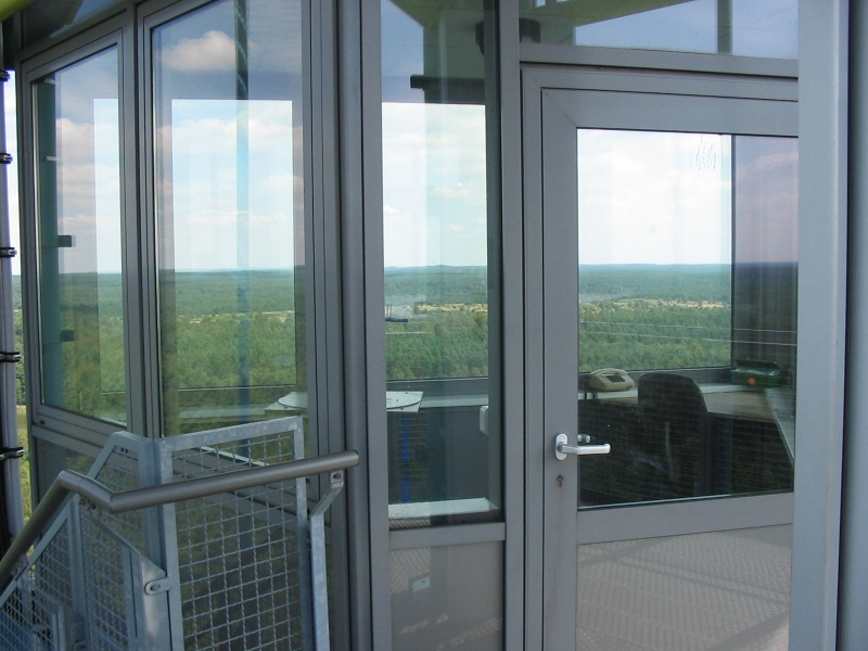 Fire watch platform on tower "Käflingsbergturm" in the Müritz National Park in Germany